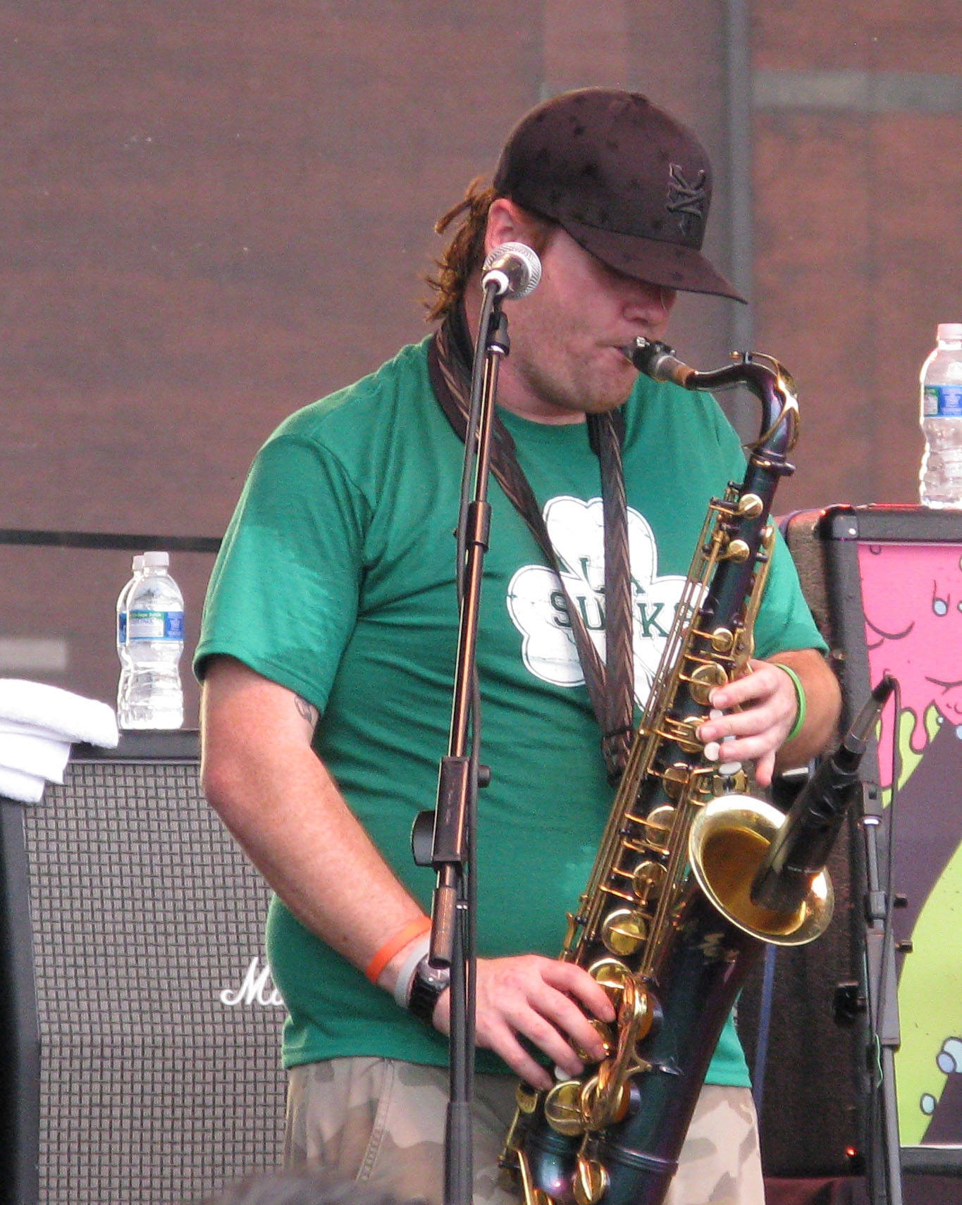 Peter Wasilewski performing in Philadelphia, Pennsylvania on June 29, 2008